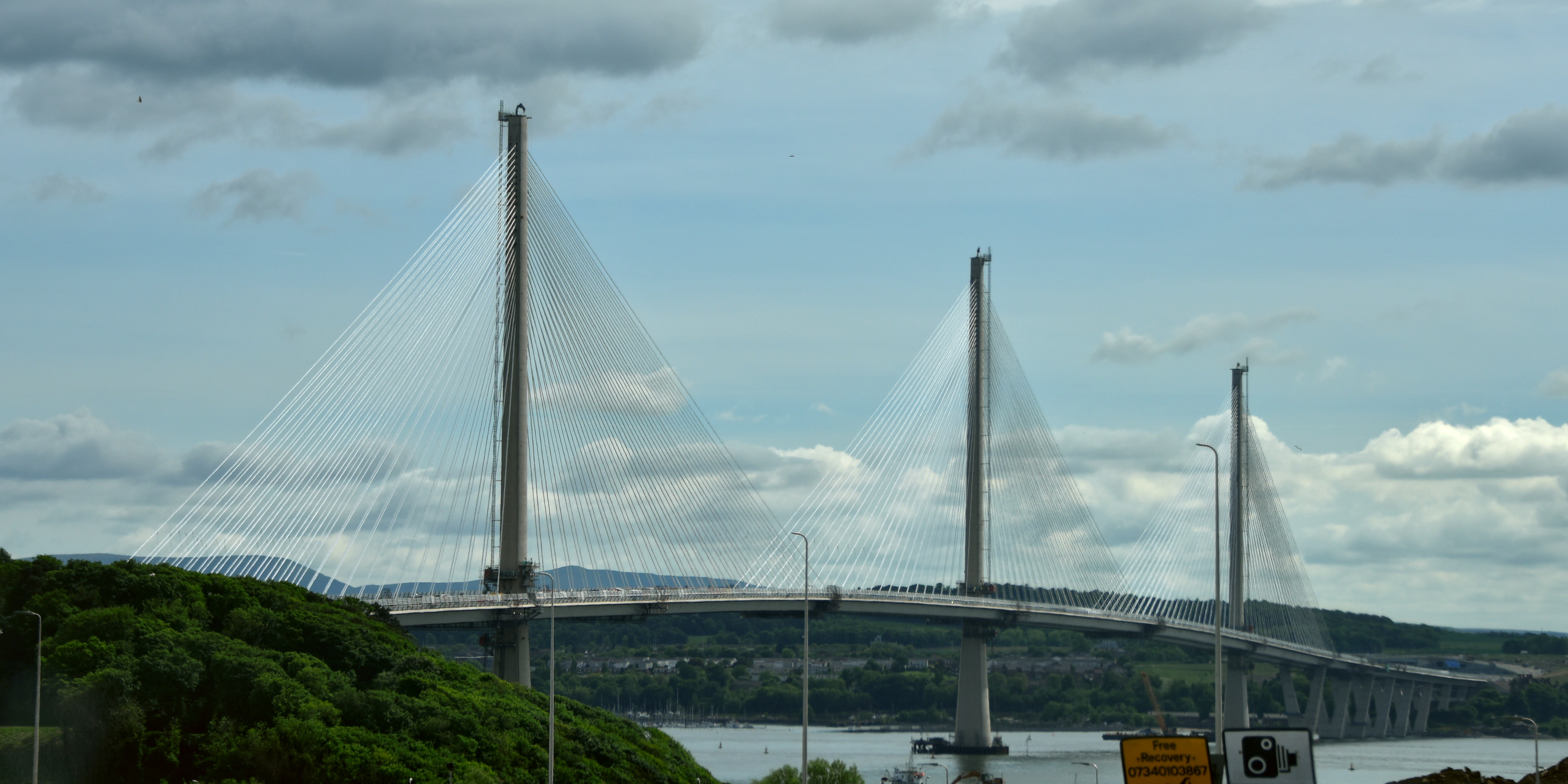 A new cable-stay bridge being constructed across the Firth of Forth to augment the existing Forth Road Bridge.